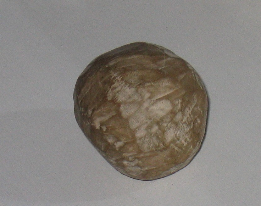 Ball made of Piptoporus betulinus